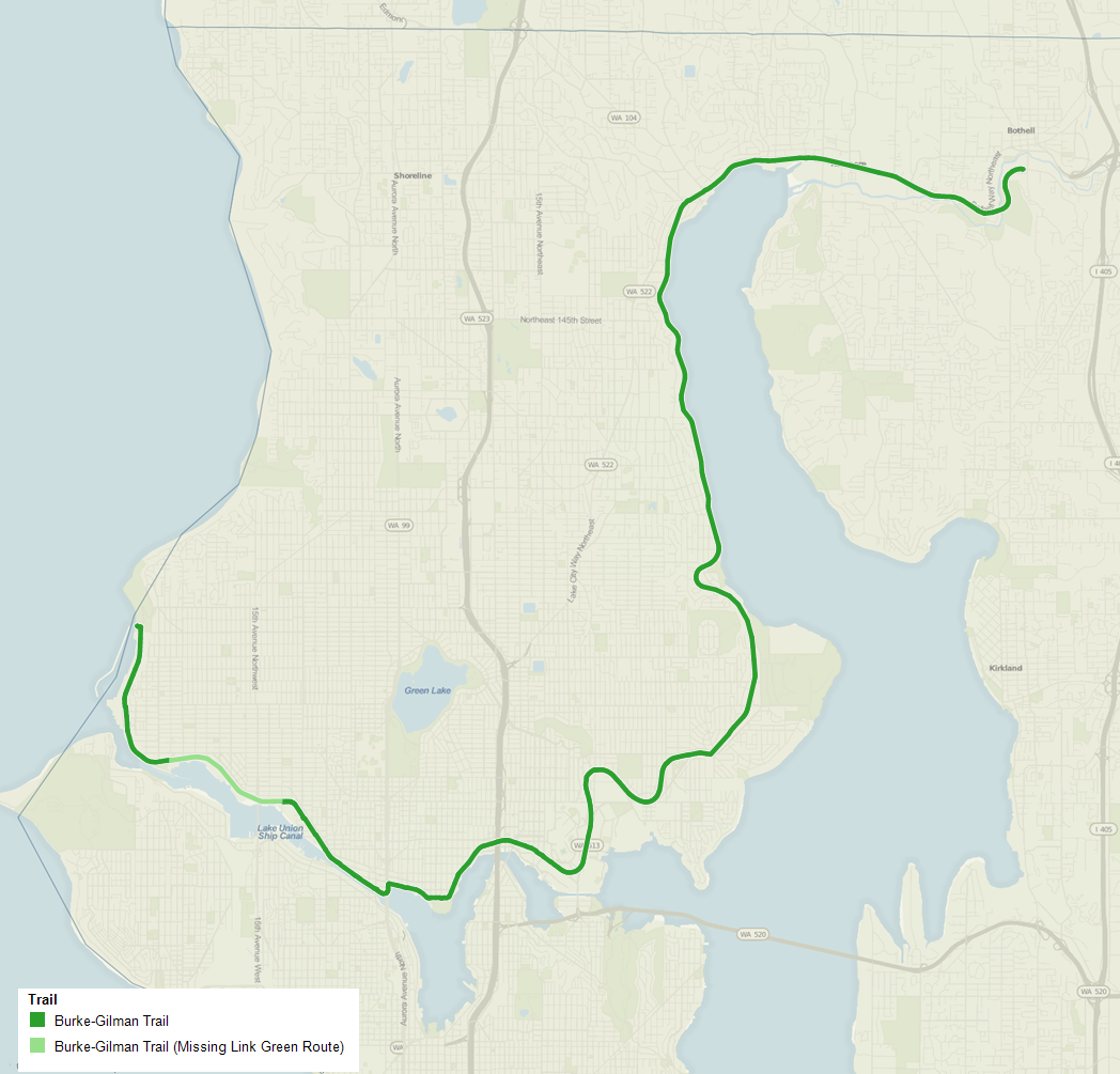 Burke Gilman Trail route. Created with Tableau